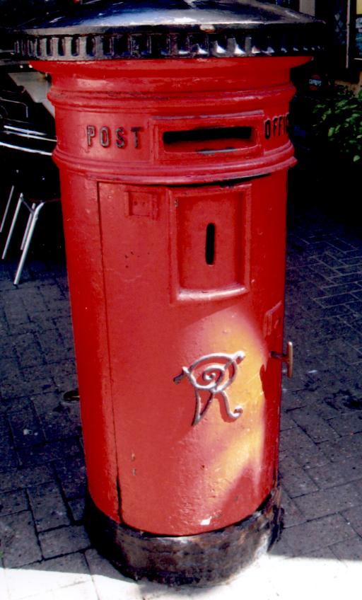 Victorian post box of UK Type A, 1887-1901 version, in use opposite The Convent in Main Street, Gibraltar. It is the oldest post box in Gibraltar.